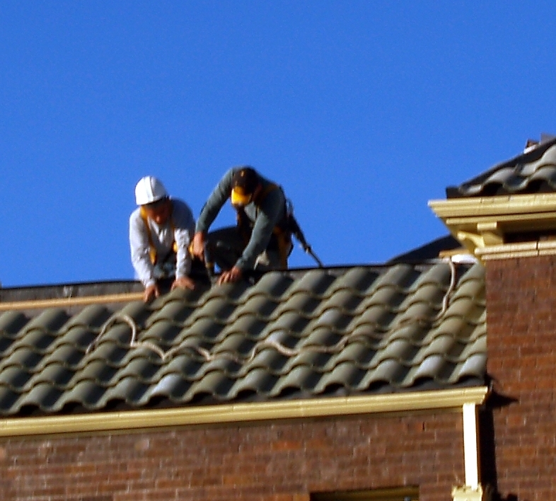 Roofing in Denver, Colorado.